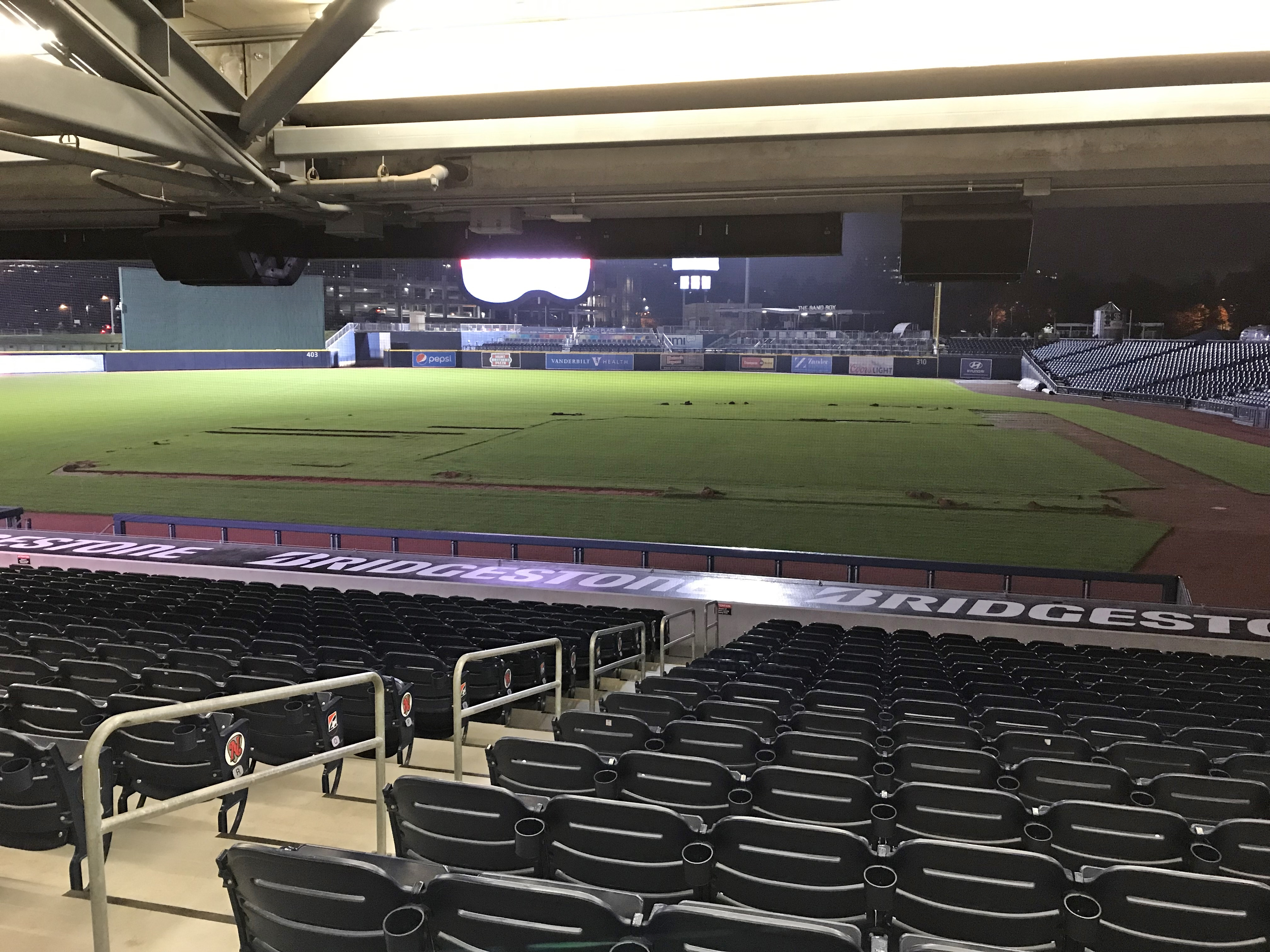 The partially sodded-over infield at First Tennessee Park